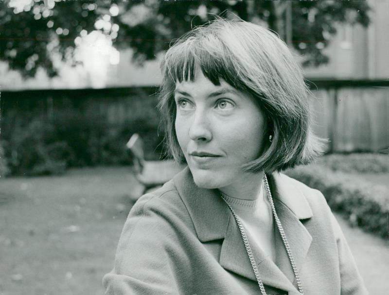 A portrait of the author, translator and critic Margareta Ekström.